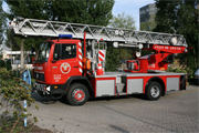 AHBVPA-VE32 01